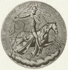 Lithograph of the seal of Robert Stewart, Duke of Albany & Governor of Scotland